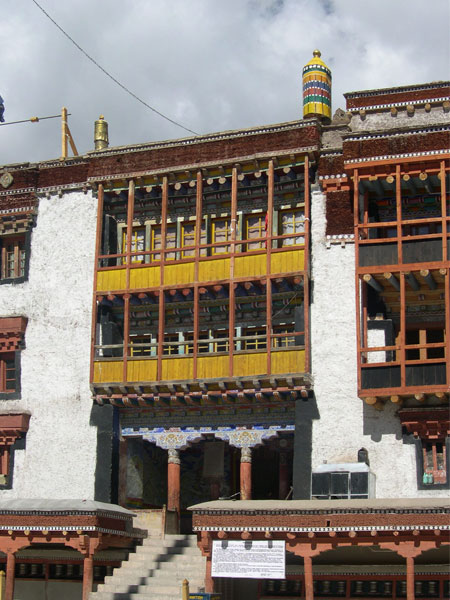 Dukhang’s facade. Hemis monastery (Ladakh, Jammu and Kashmir, India)